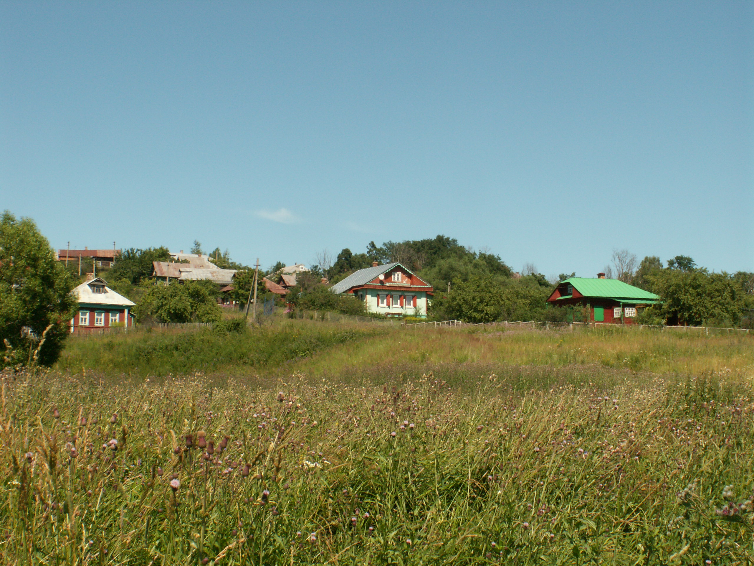 Porozovo